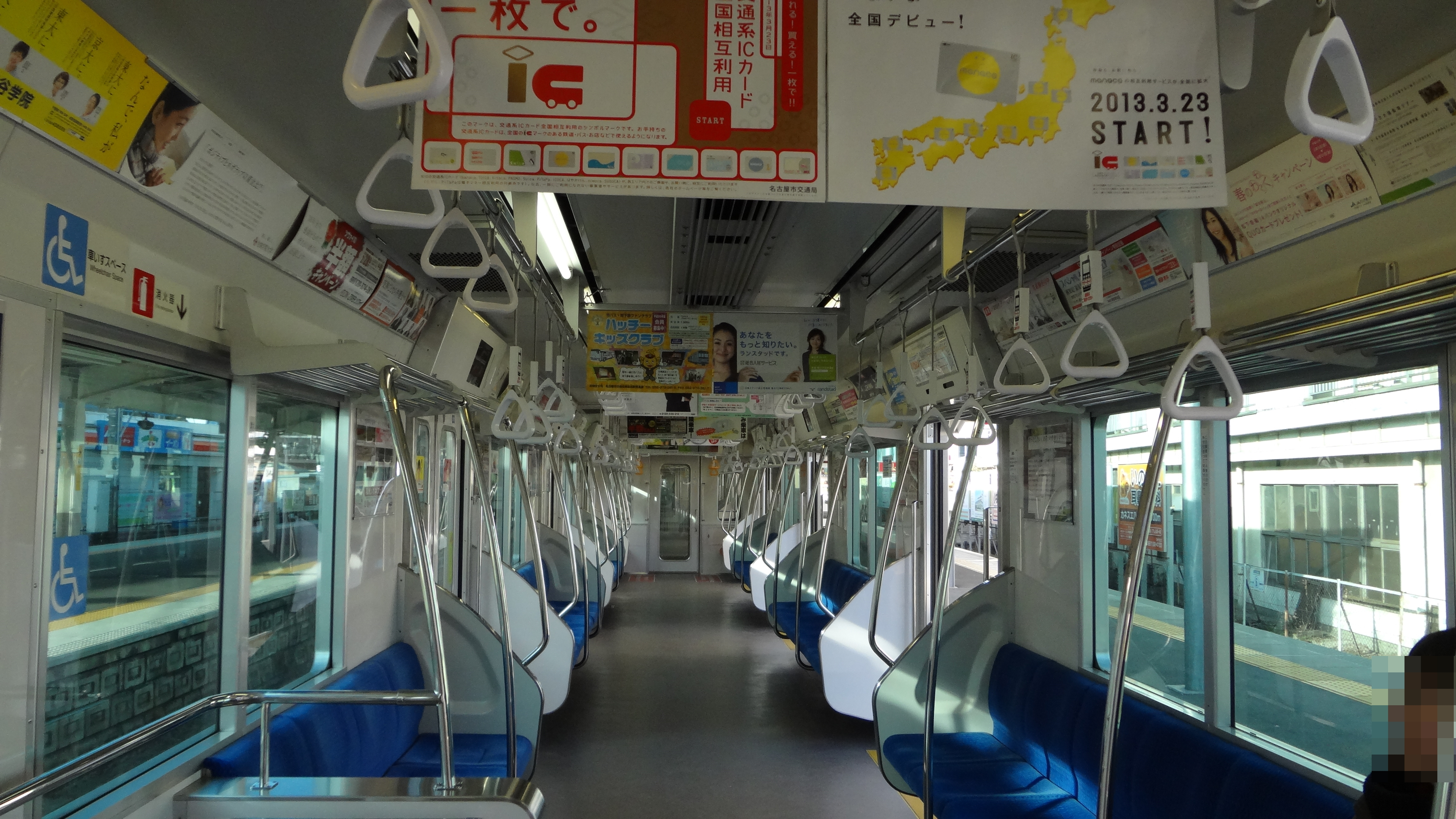 Interior of Nagoya Municipal Subway N3000 series EMU set N3102